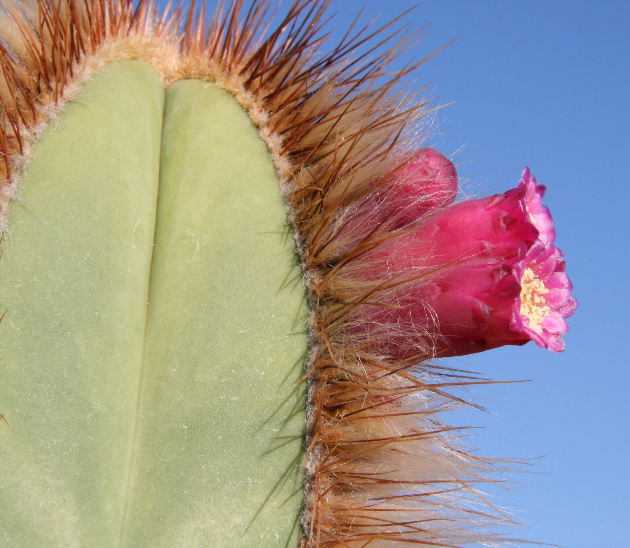 detail view of pseudocephalium and flowers, plant from type locality, N Minas Gerais, Brasil